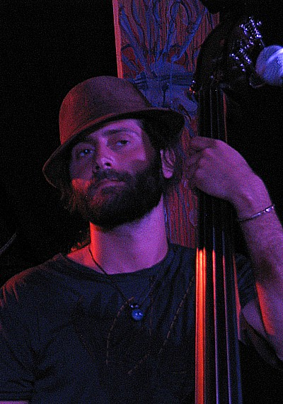 Dango Rose of Elephant Revival during break at The Saint in Asbury Park, NJ 06162011